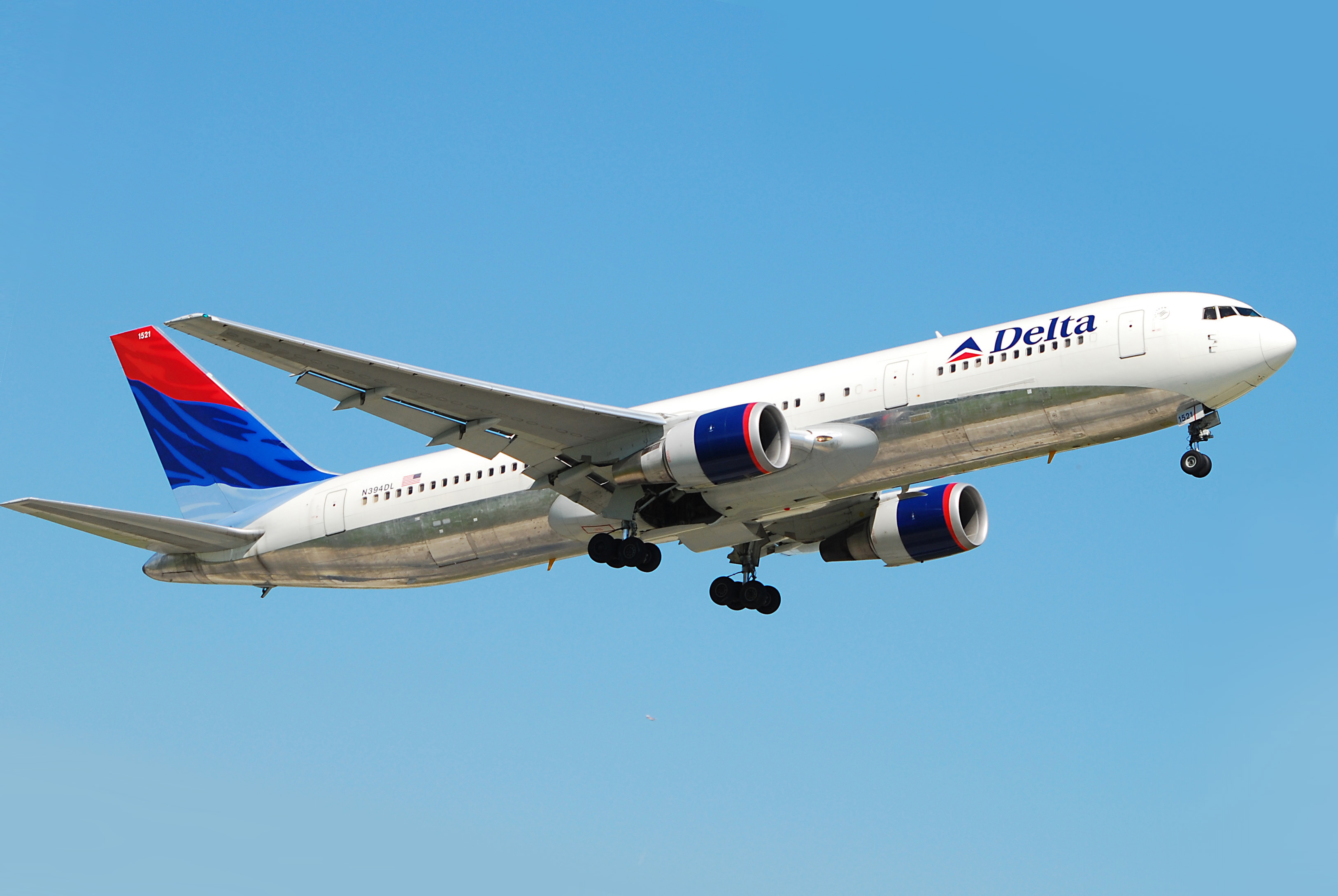 Delta Airlines (N394DL), Boeing 767 Spotting in June. Stuttgart Airport (STR / EDDS)